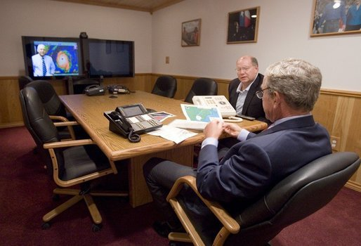 President George W. Bush is handed a map by Deputy Chief of Staff Joe Hagin, center, during a video teleconference with federal and state emergency management organizations on Hurricane Katrina from his Crawford, Texas ranch on Sunday August 28, 2005. White House photo by Paul Morse